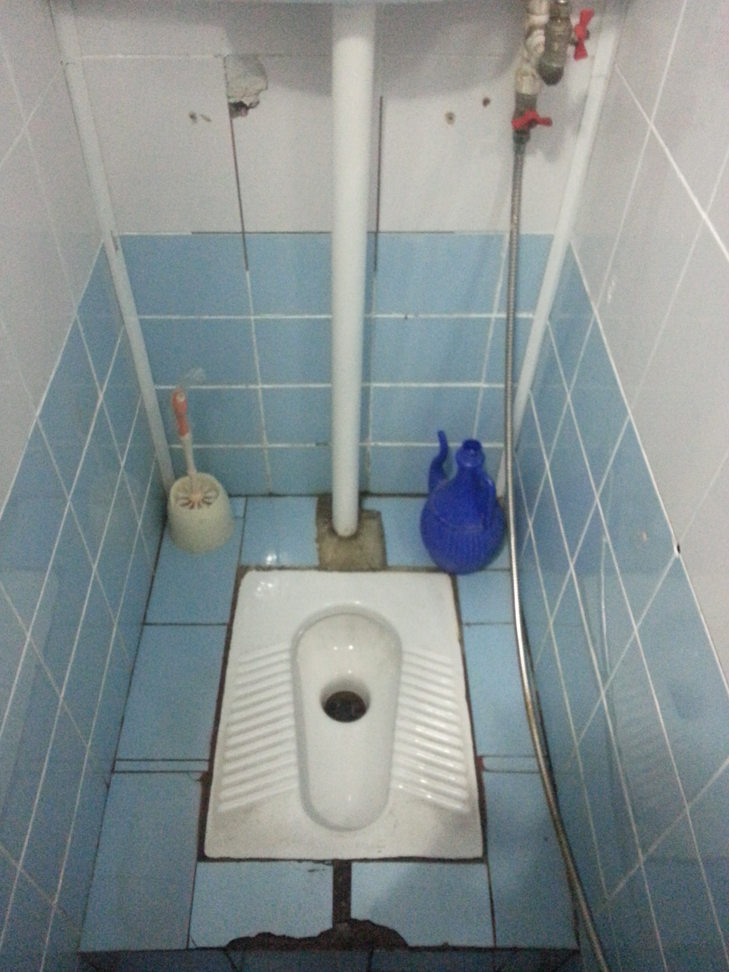 Muslim toilet with bidet shower and plastic ewer ("Nurdaulet" mosque, Aktobe city, Kazakhstan).